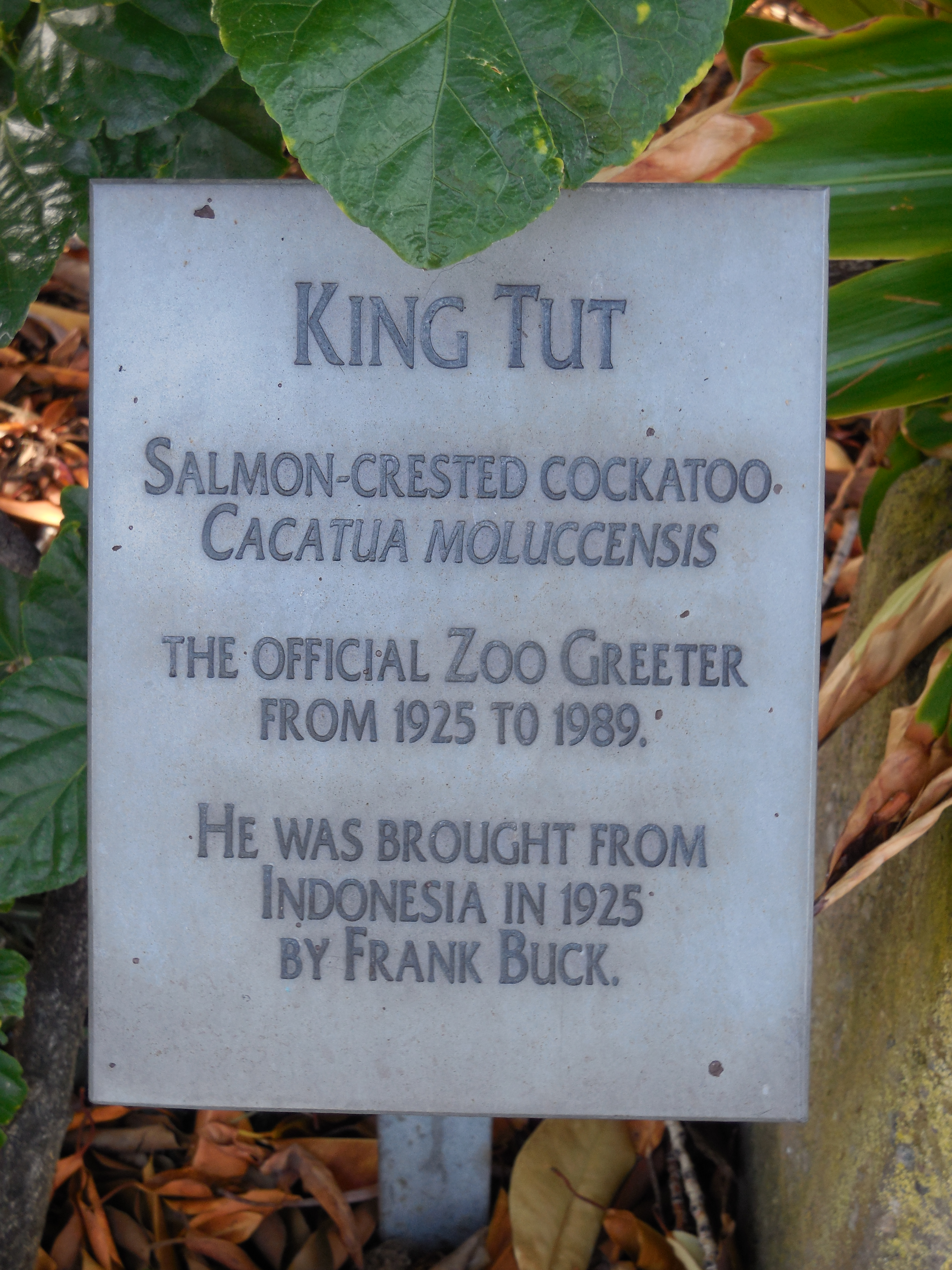 Plaque at the San Diego Zoo describing "King Tut", a salmon-crested cockatoo (Cacatua moluccensis) that lived at the San Diego Zoo from 1925 to 1990 and served as the zoo's "official greeter" for 40 years. The plaque is located beneath a bronze statue of King Tut that stands inside the zoo's entrance next to the flamingo pond, in the spot where King Tut's perch was located during the bird's life. Text of the plaque: "King Tut / Salmon-crested cockatoo / Cacatua moluccensis / The official Zoo Greeter from 1925 to 1989. / He was brought from Indonesia in 1925 by Frank Buck."